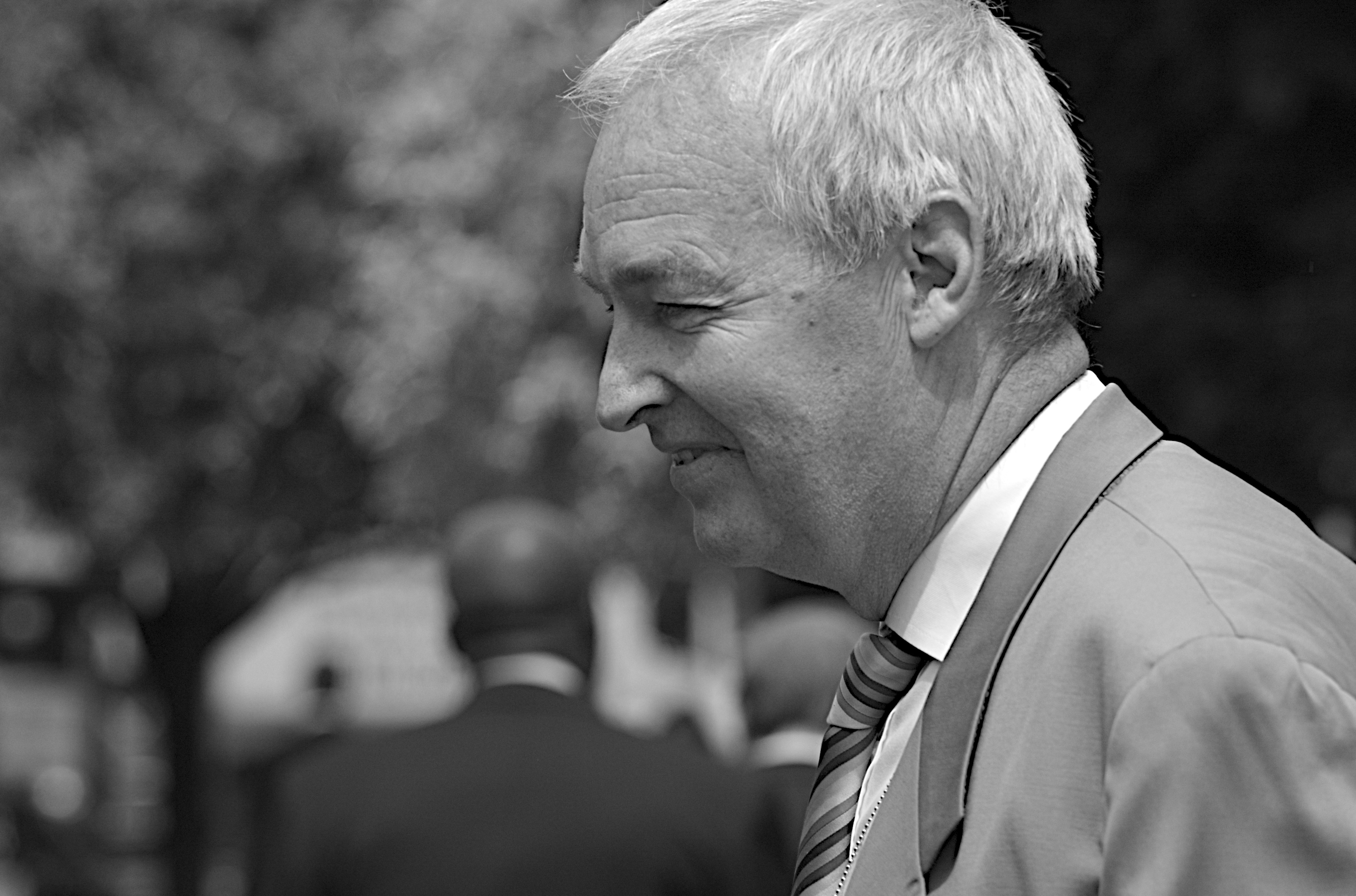 Jon Snow, British television newsreader and journalist.